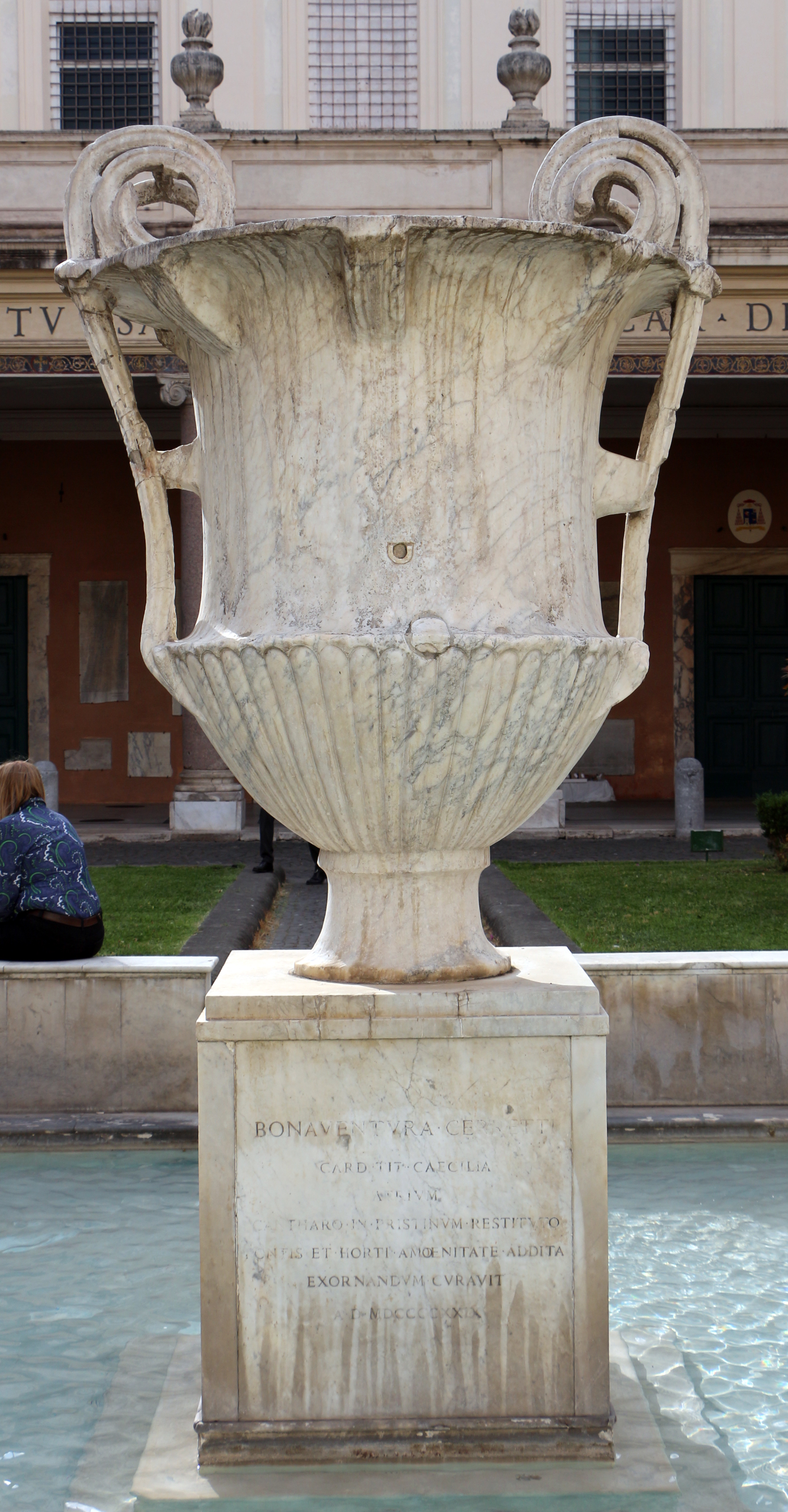 Santa Cecilia (Rome)